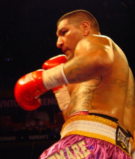 Chris Arreola at ESPN Friday Night Fights in Reno, NV